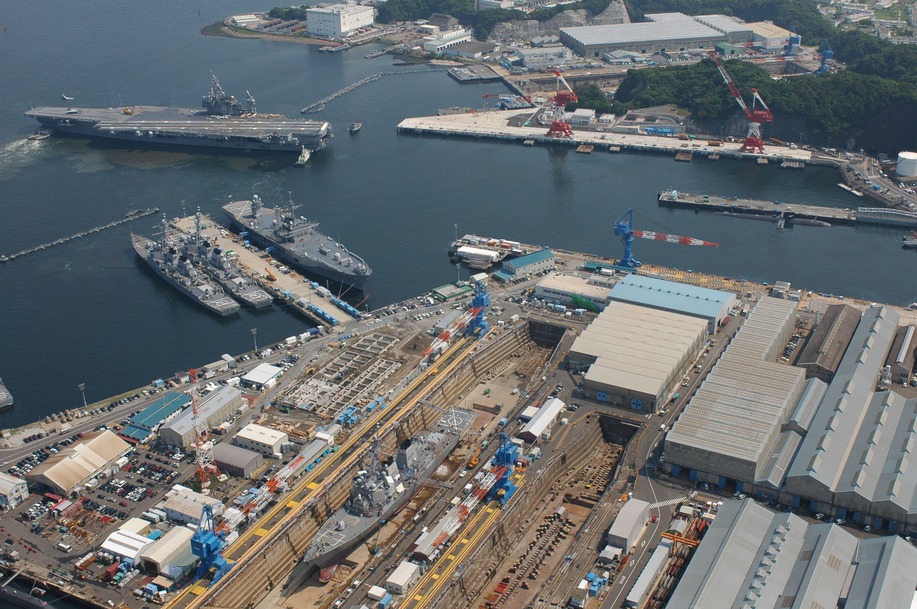 official description: 060525-N-8591H-358 Yokosuka, Japan (May 25, 2006)- USS Kitty Hawk (CV 63) backs into the recently upgraded Pier 12 on board Naval Facilities Yokosuka following the completion of a 4-day Sea Trial cruise. The pier was upgraded to accommodate the nuclear aircraft carrier USS George Washington (CVN 73), scheduled to replace the Kitty Hawk in 2008. Kitty Hawk demonstrates power projection and sea control as the world's only permanently forward-deployed aircraft carrier, operating from Yokosuka, Japan. U.S. Navy photo by Photographer's Mate 3rd Class Jarod Hodge (RELEASED)